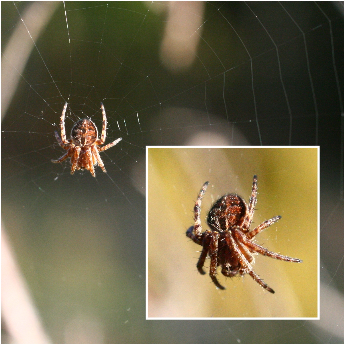 Agalenatea redii (Araneidae) in web. Bricket Wood Common, Hertfordshire, 25.10.2010.